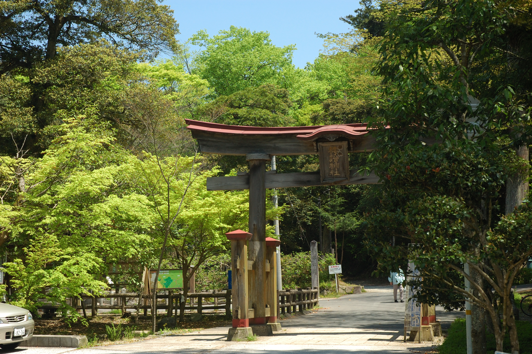 Torii of old Ouchidani jinja